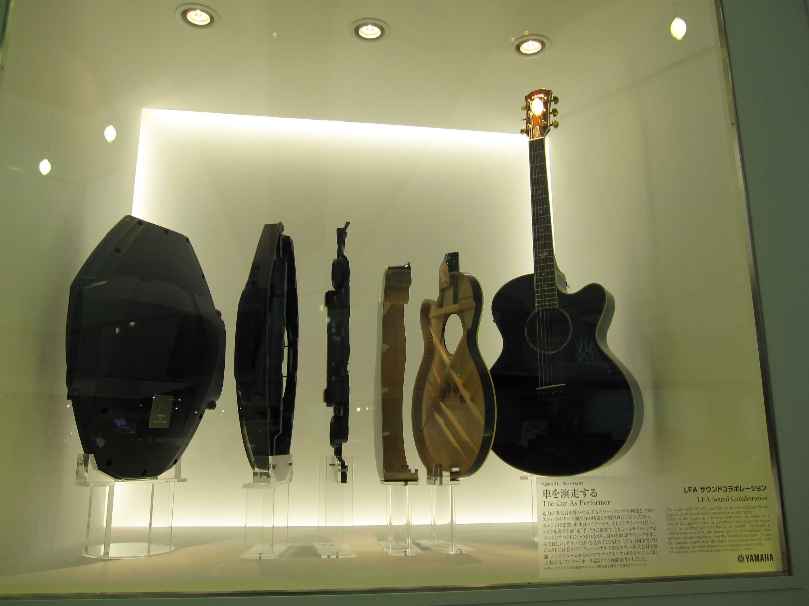 LEXUS LFA Surge Tank - The Car As Performer (LEXUS × YAMAHA)